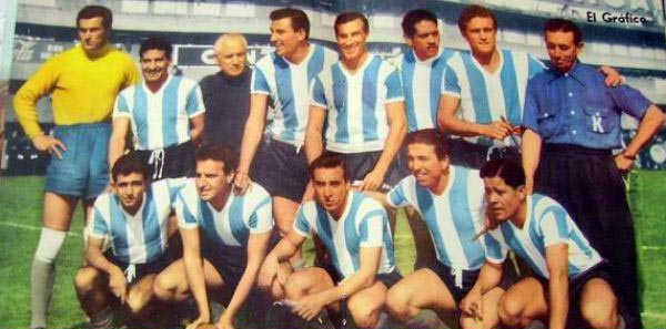 Argentina national team in 1958. That squad disputed the World Cup in Sweden that same year.